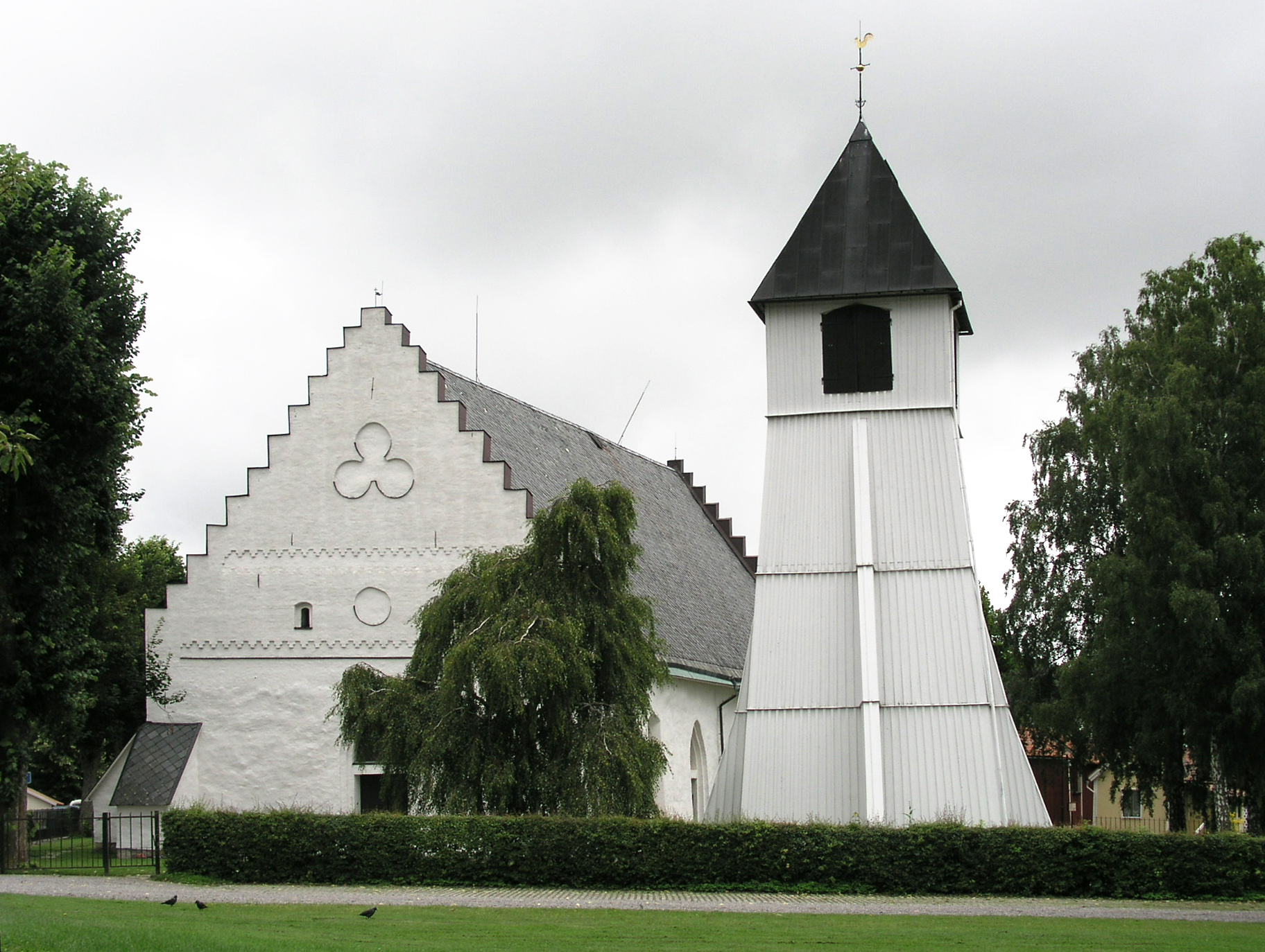 Drothems kyrka, Söderköping. Church with bell tower. The picture was taken the 11 of August 2005 by Håkan Svensson (Xauxa).